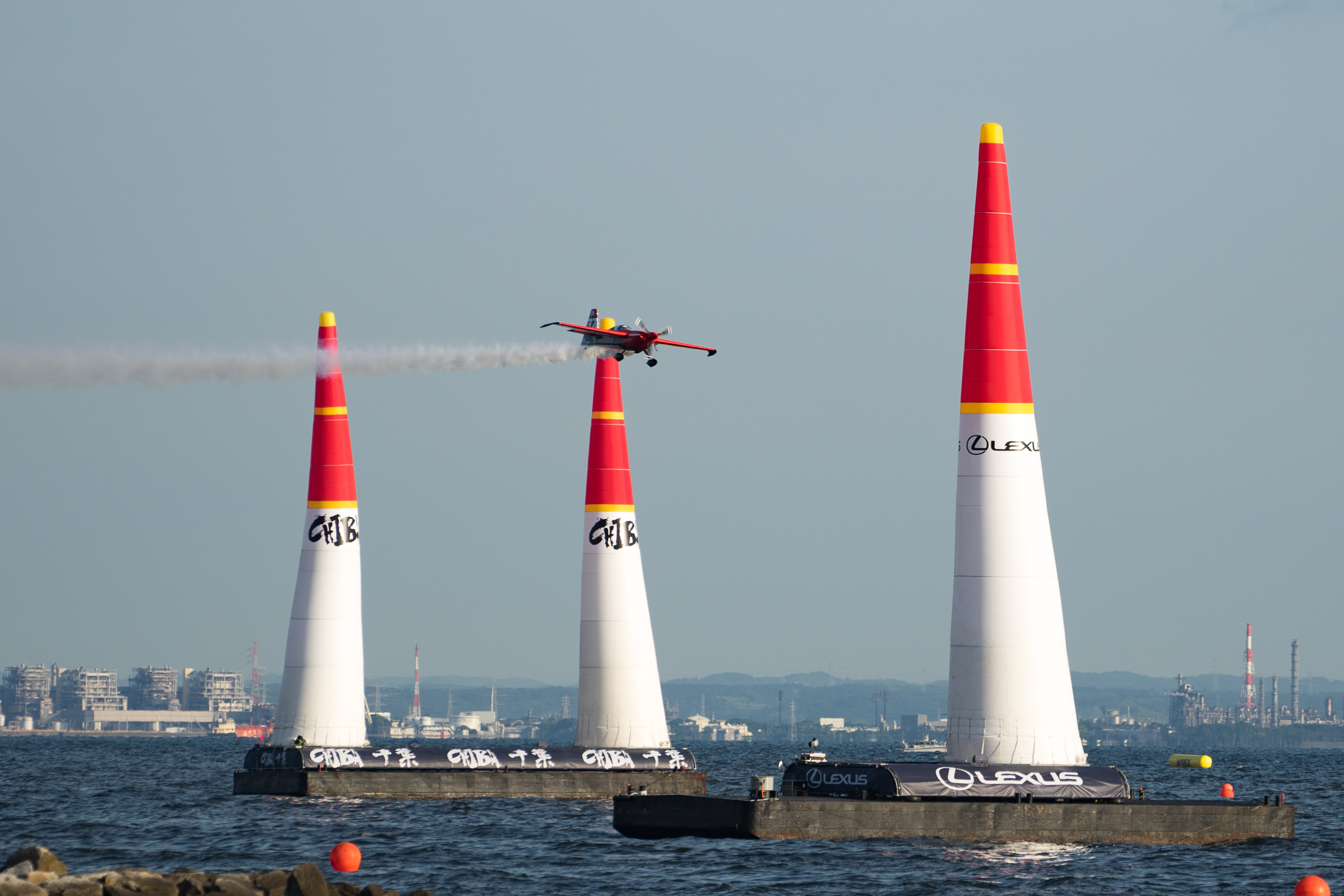 RED BULL AIR RACE CHIBA 2017-139.jpg